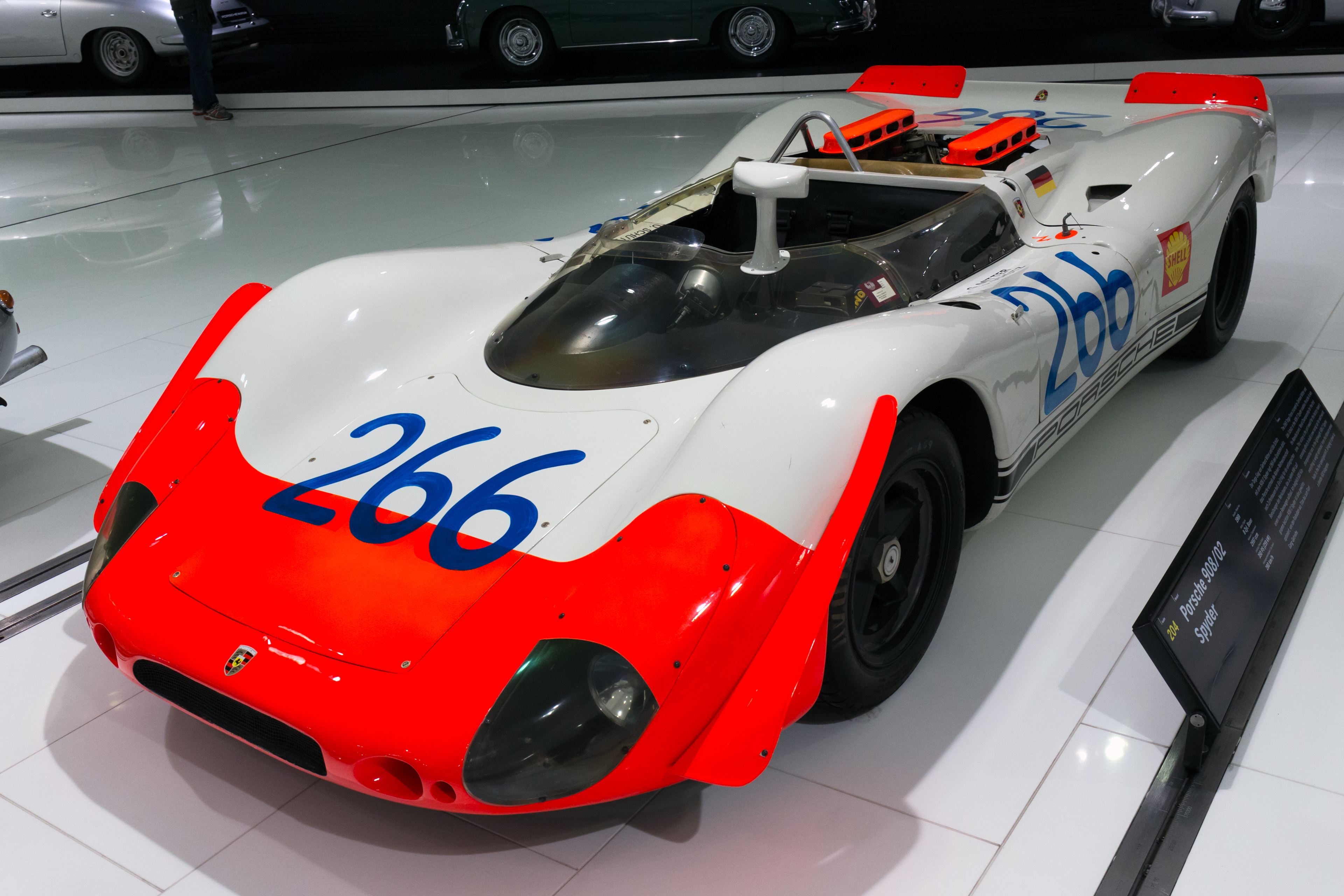 1969 Porsche 908/2 Spyder, 1969 Targa Florio winner